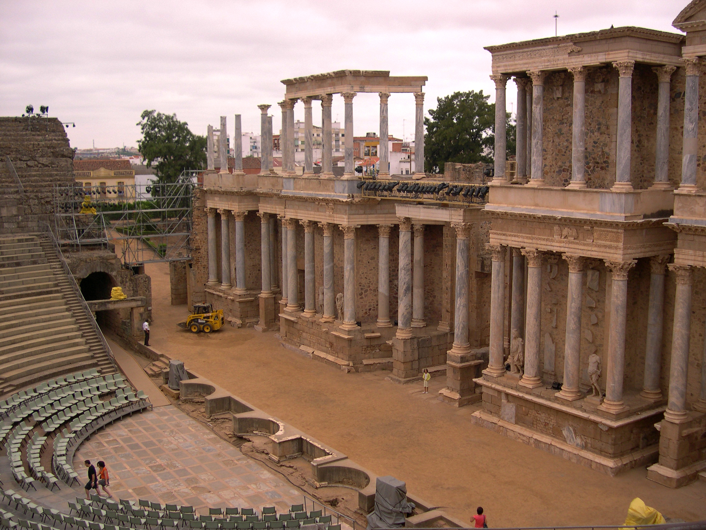 Ancient Roman theater in Mérida (Badajoz, Extremadura, Spain).